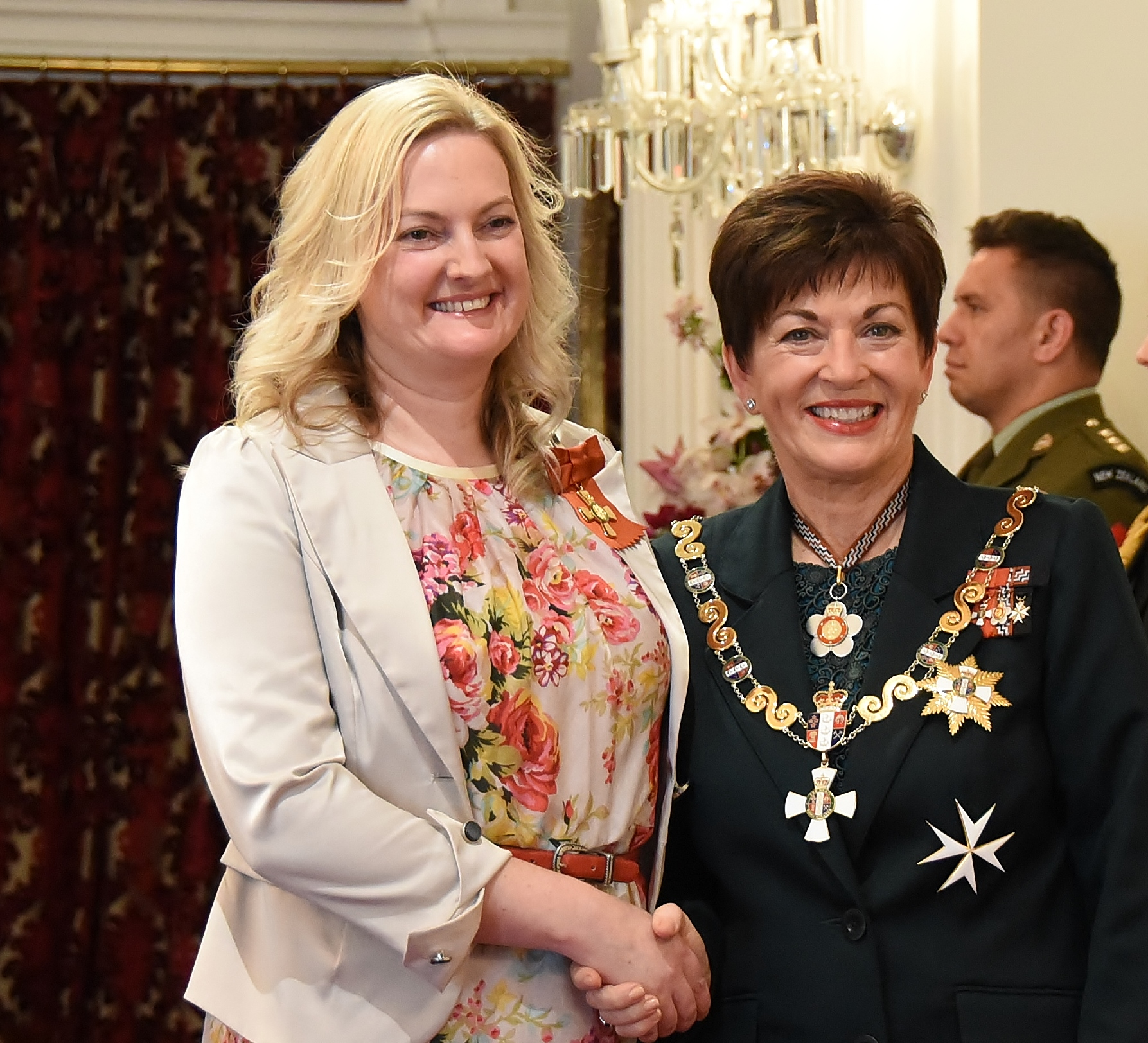 Victoria Spackman (left), after her investiture as ONZM, for services to theatre, film and television, by the governor-general, Dame Patsy Reddy, on 20 October 2016